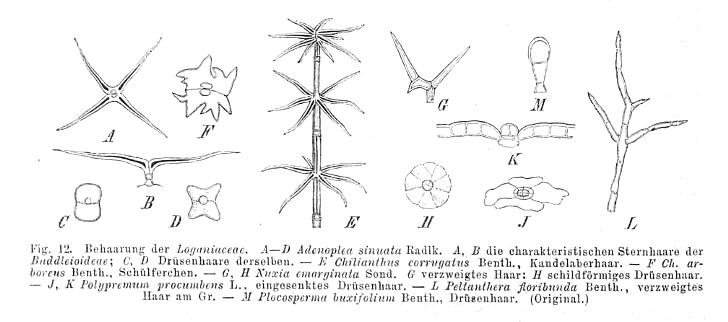 Hairs of Loganiaceae. A.-D. Buddleya acuminata Poir.=Adenoplea sinuata Radlk.: A/B. Characteristical star form of hairs with Buddleoidea. C/D. Gland hairs. E. Buddleya loricata Leeuwenb.=Chilianthus corrugatus Benth.: Stacked hairs. F. Buddleja saligna Willd. = Chilianthus arboreus DC.: Scale. G/H. Nuxia congesta R.Br. ex Fresen. = Nuxia emarginata Sond.: G. Branched hair. H. Gland hair. J/K. Polypremum procumbens L.: Gland hair, integrated in surface. L. Peltanthera floribunda Benth.: Branched hair. M. Plocosperma buxifolium Benth.: Gland hair.